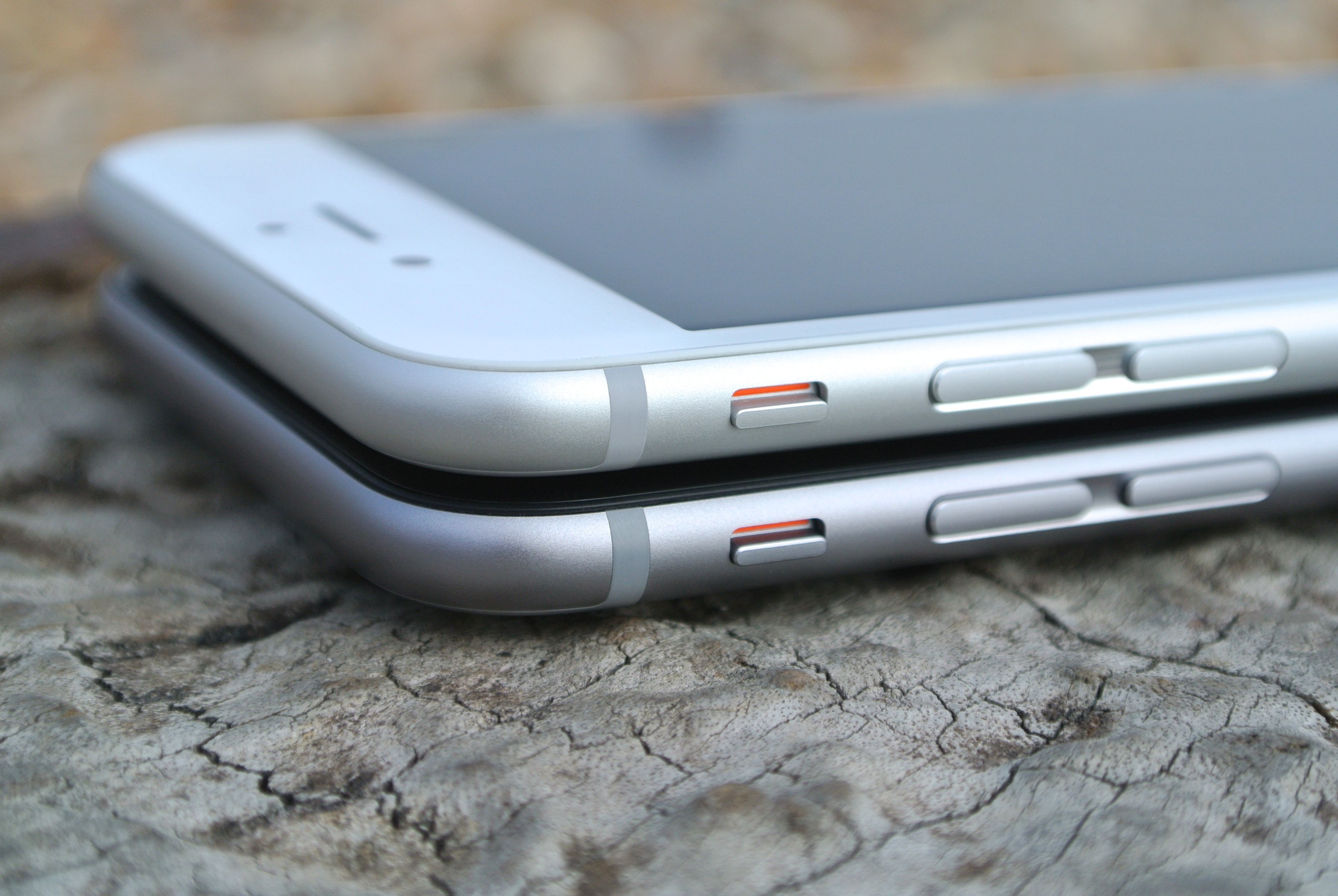 Photo of a silver and space-grey Apple iPhone 6